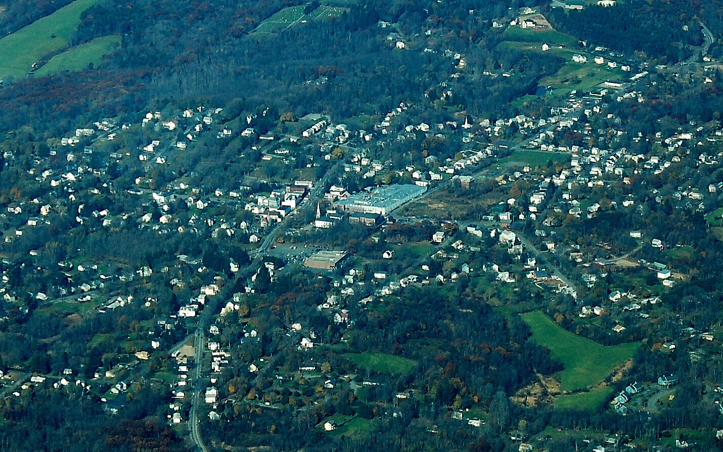 Photo of North Brookfield taken by Richard B. Johnson from his Grumman Cheetah.